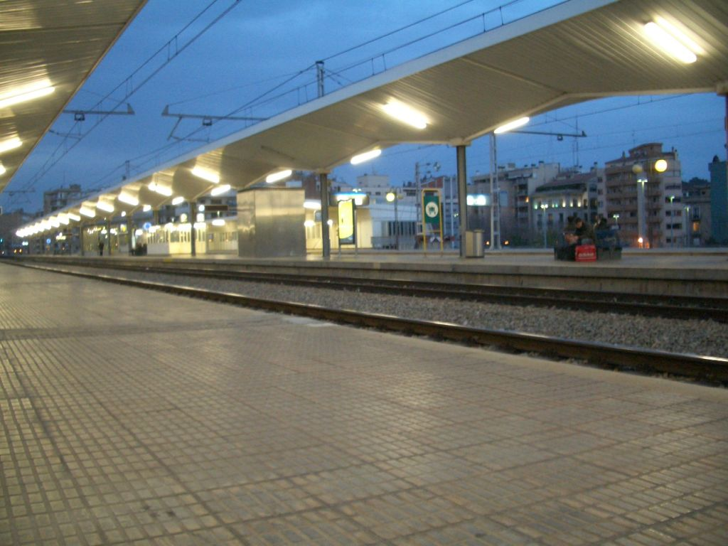 Girona railway platform